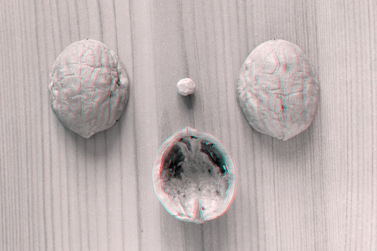 A shell game